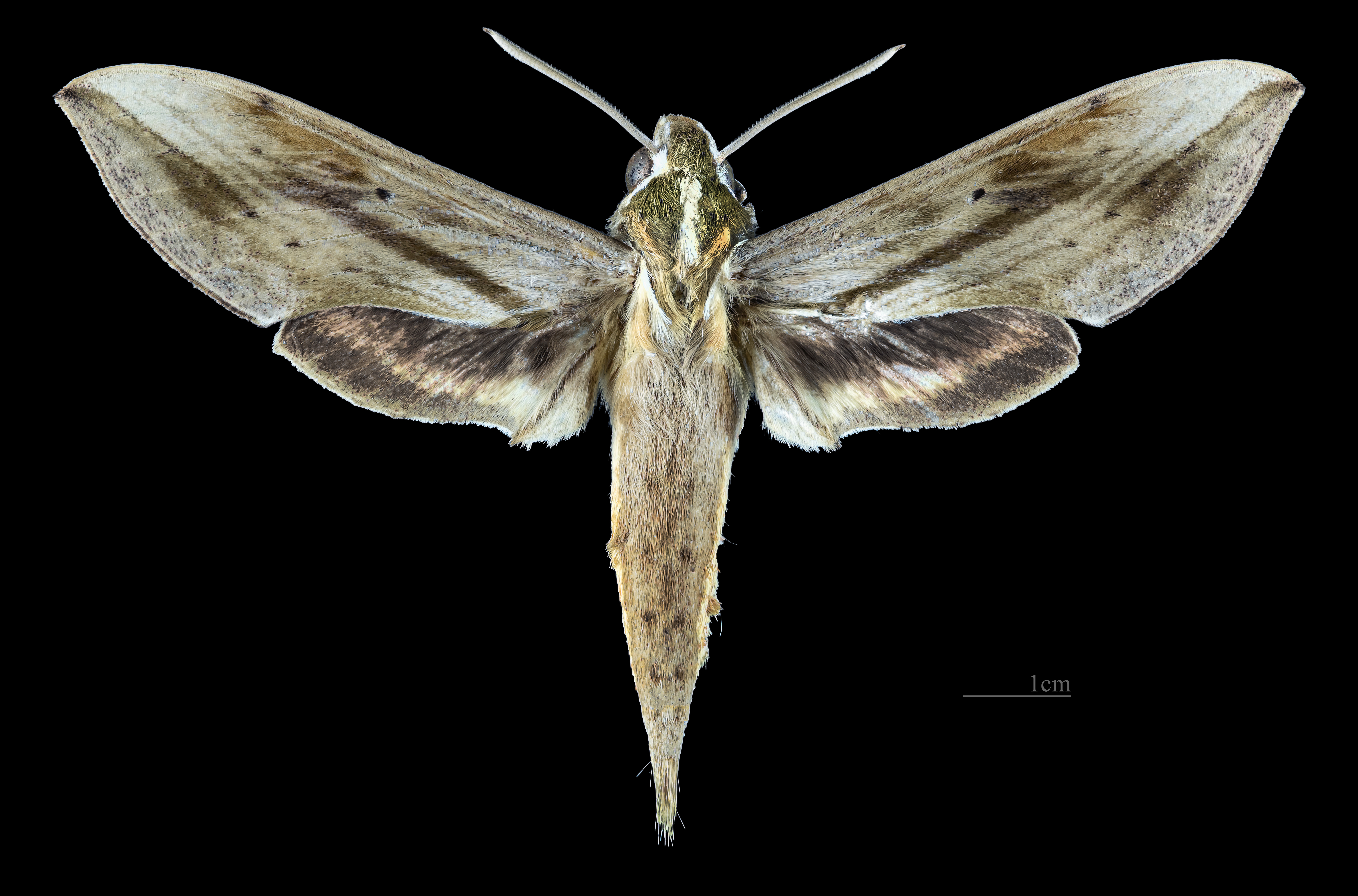 Xylophanes fosteri - Dorsal side Collection of the Mathematician Laurent Schwartz